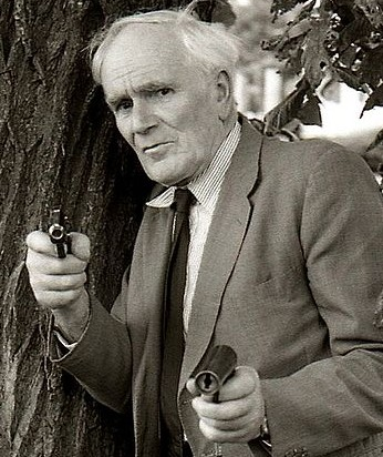 Desmond Llewelyn in Sweden to promote "Octopussy"